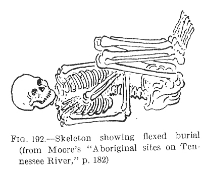 Example of a flexed burial